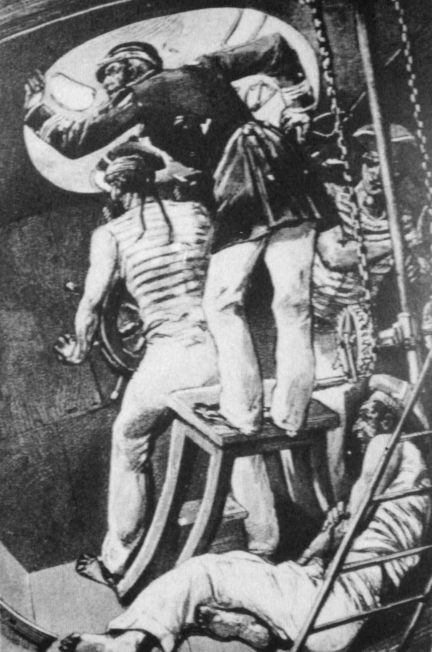 Latour_Torpedo_Boat_45_at_Fuchow